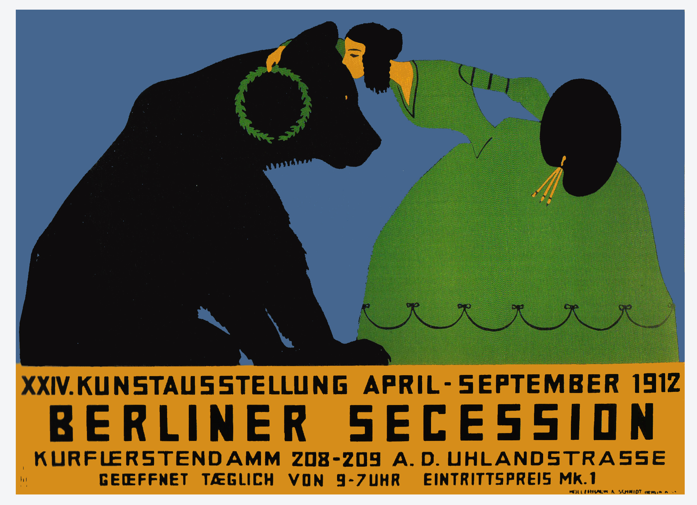 Poster of the Berlin Secession